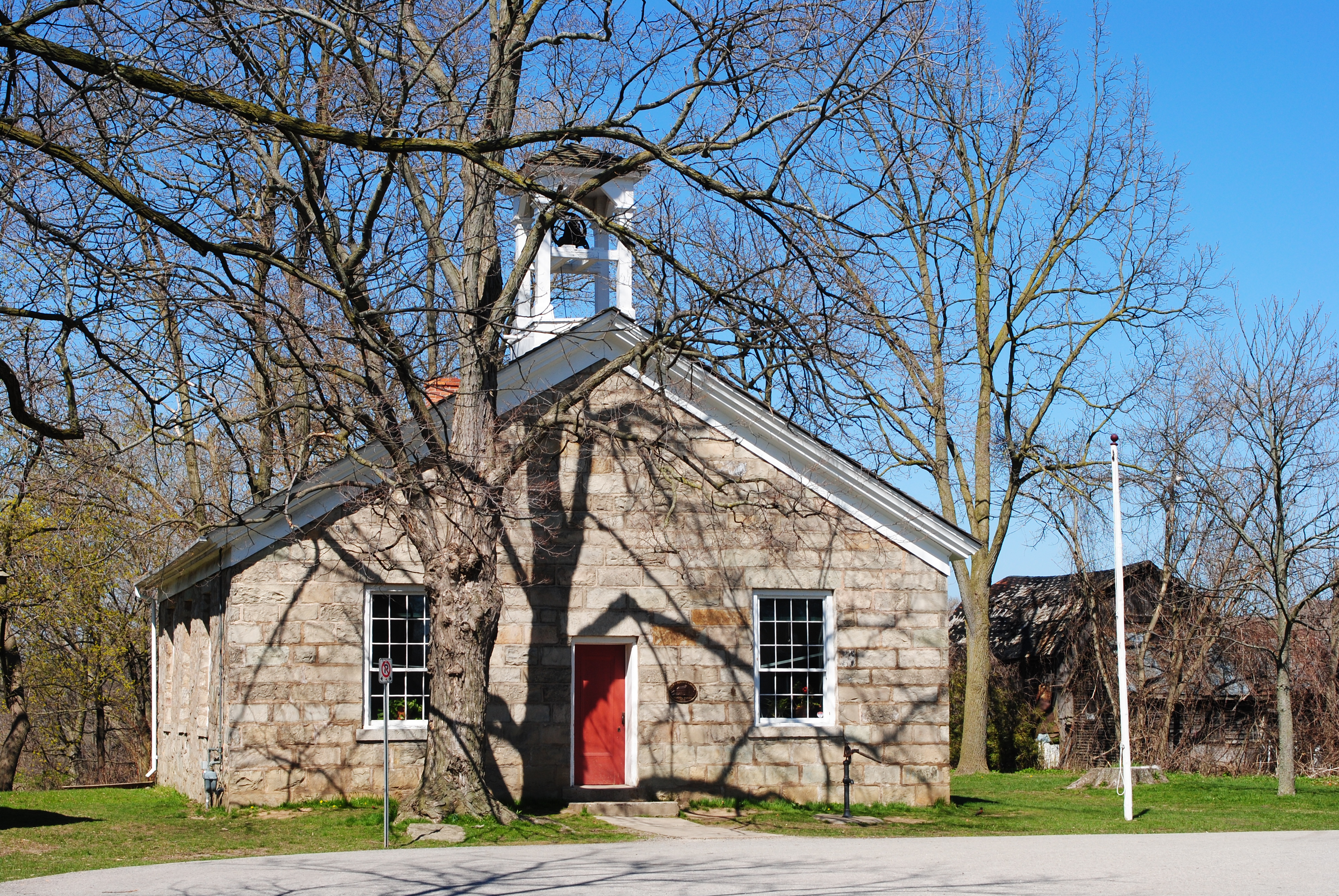 This one-room schoolhouse is located on the grounds of the Jordan Historical Museum.